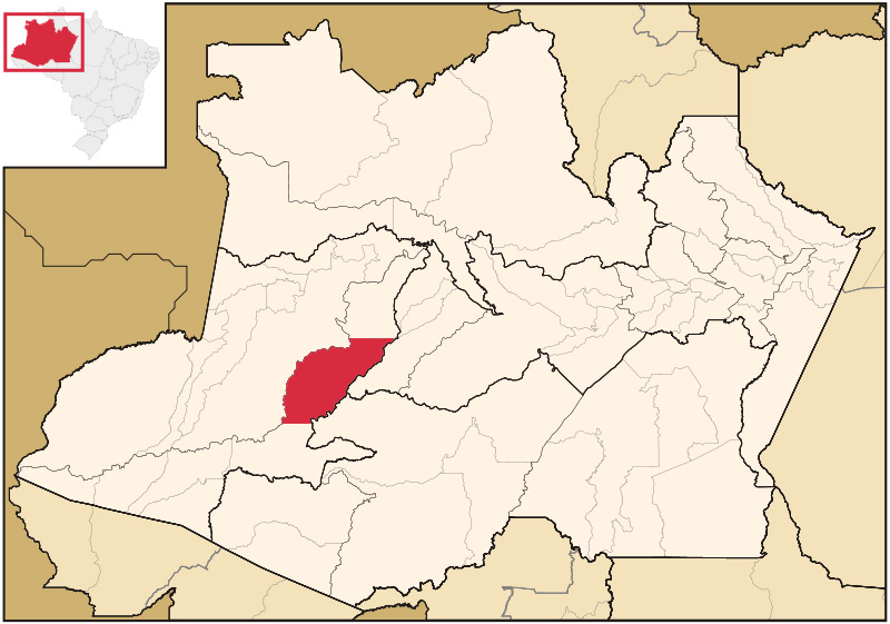 Map of Amazonas highlighting Carauari.